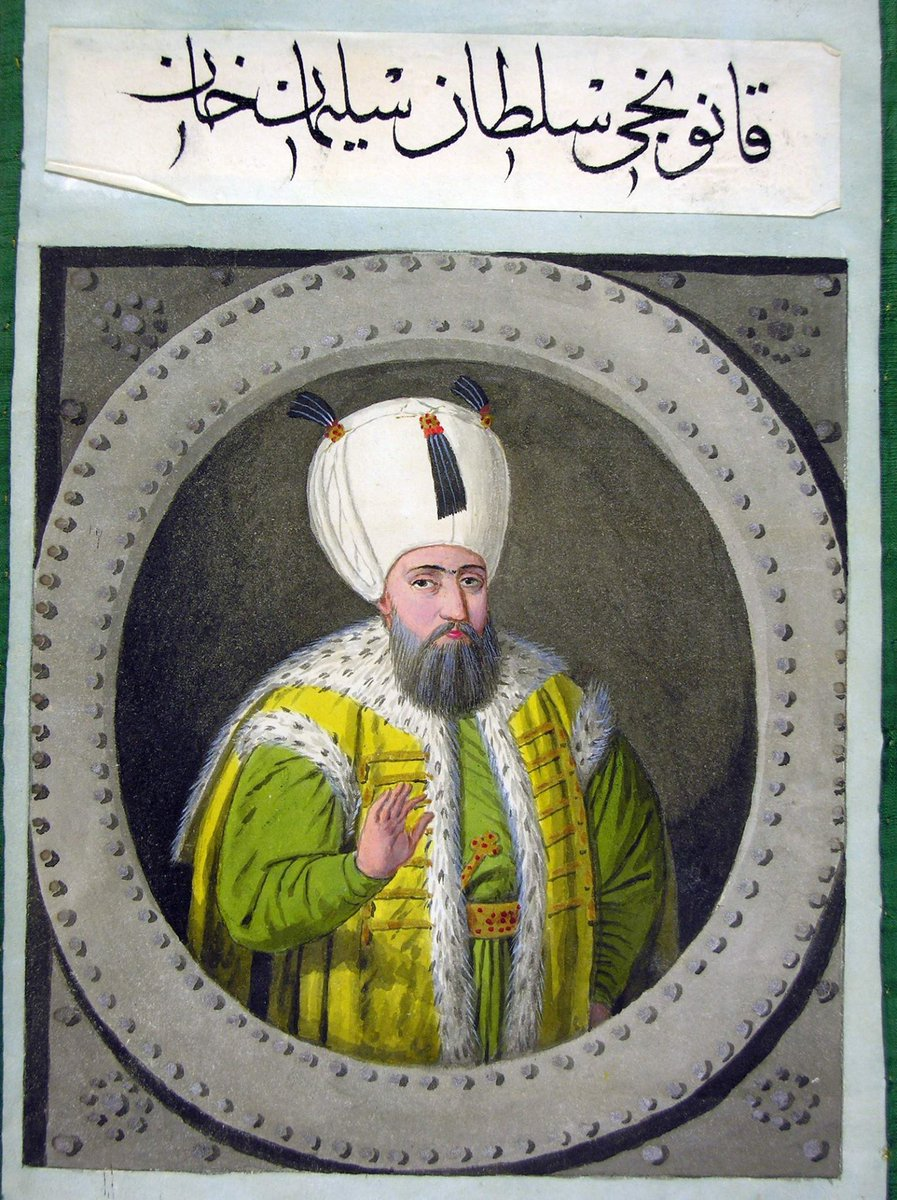 Sultan Suleiman The Magnificent (Reign; 1520-1566) (Kanuni Sultan Süleyman)